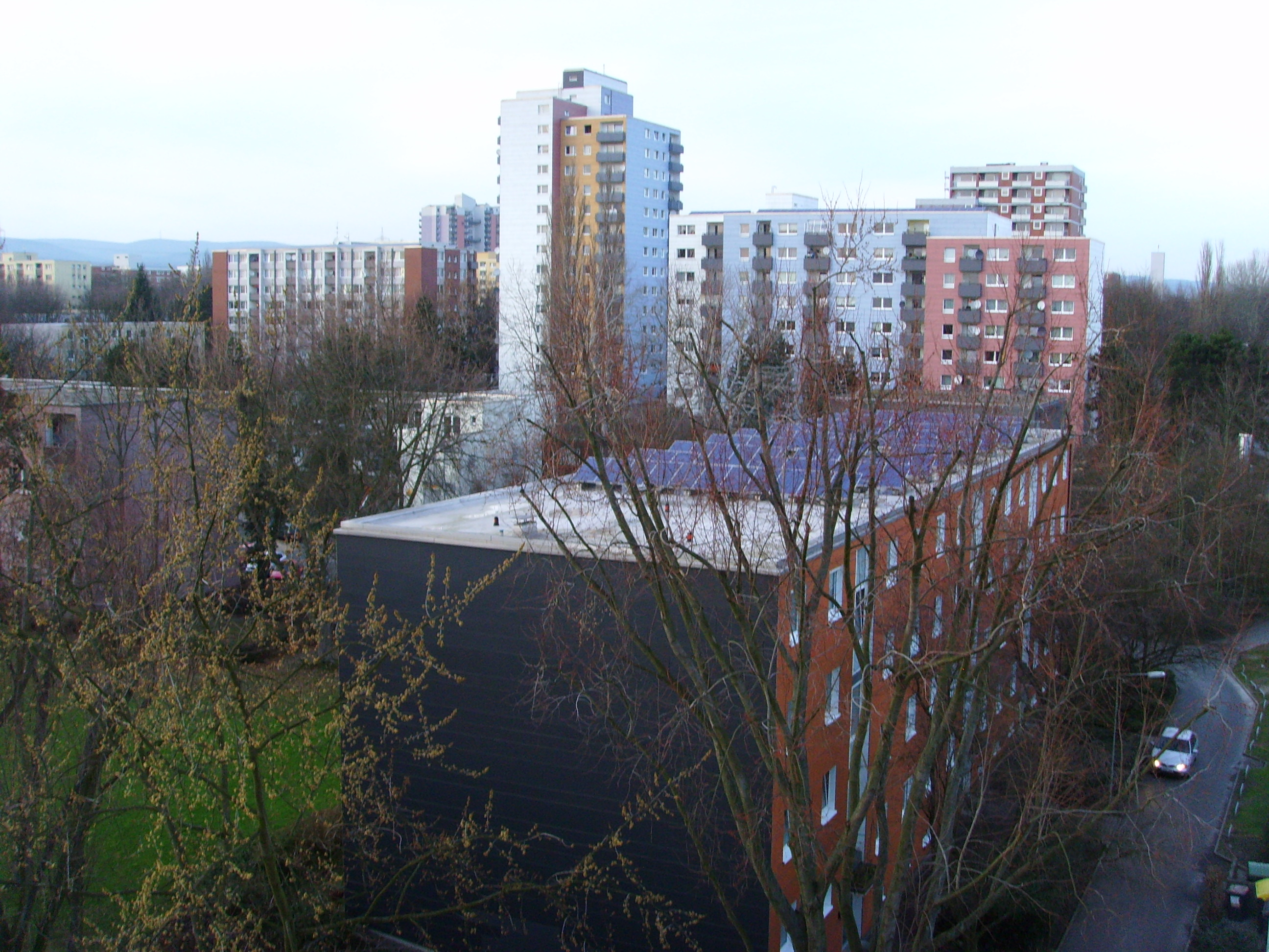 Blick über einige Häuser des Gerhart-Hauptmann-Rings, Nordweststadt Frankfurt am Main, Naehe Praunheimer Weg satellite town ("Northwesttown")in the northwest of Frankfurt am Main this photo was taken by User:Gerbil from de.Wikipedia in february 2007